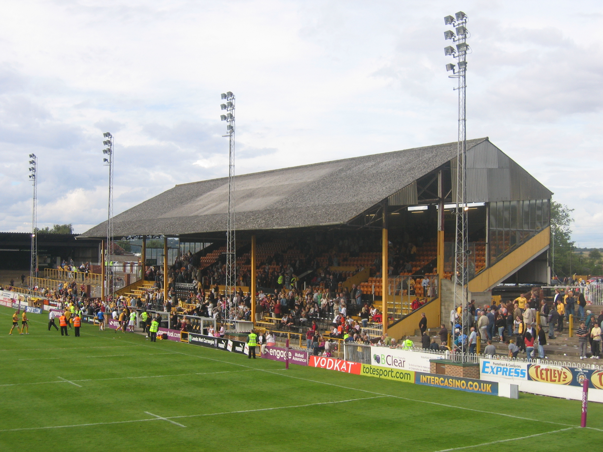 Main stand at Wheldon Road.